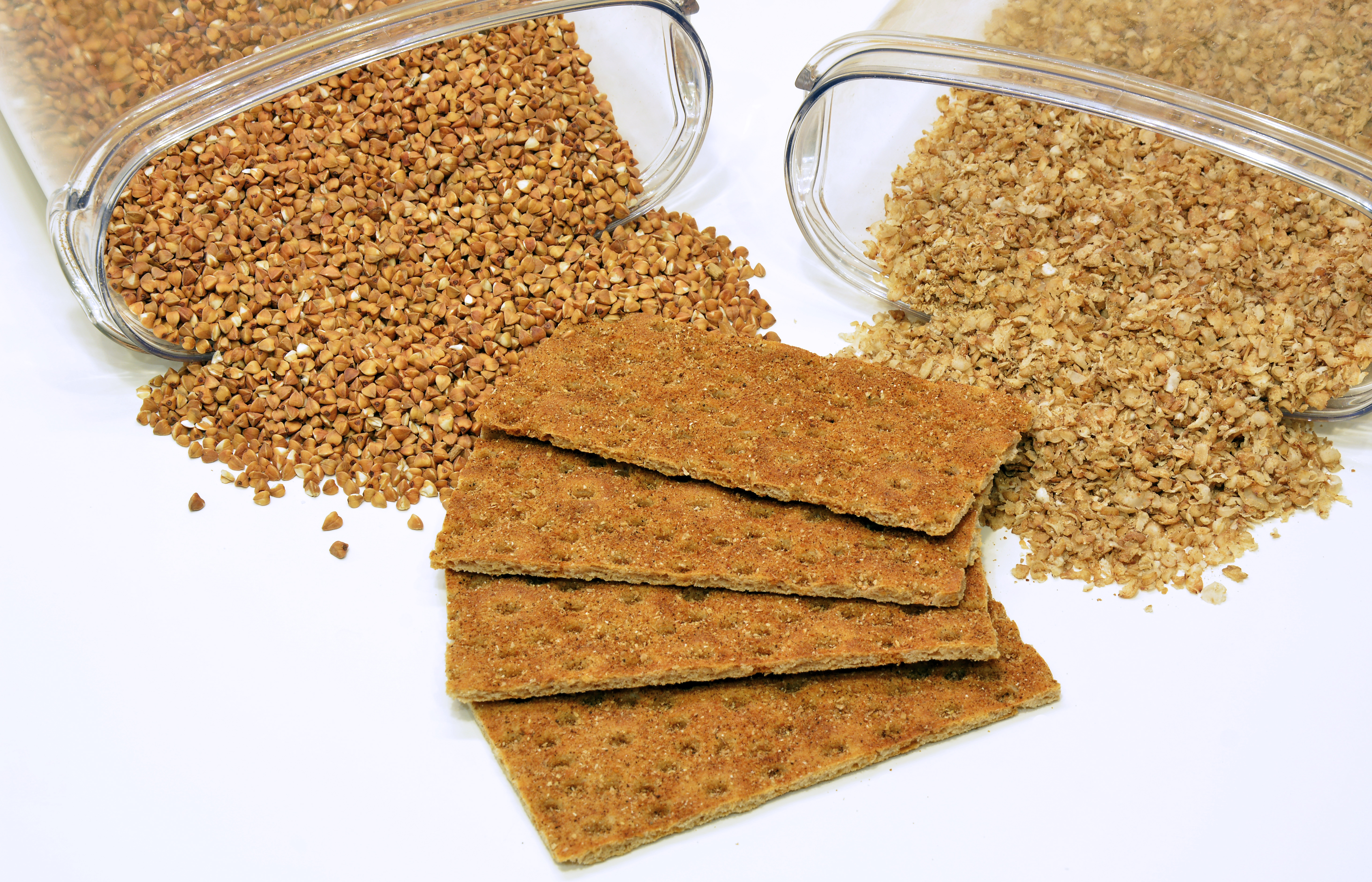 Buckwheat and products from it: buckwheat flakes (fast cooking), crispbread made of buckwheat flour.